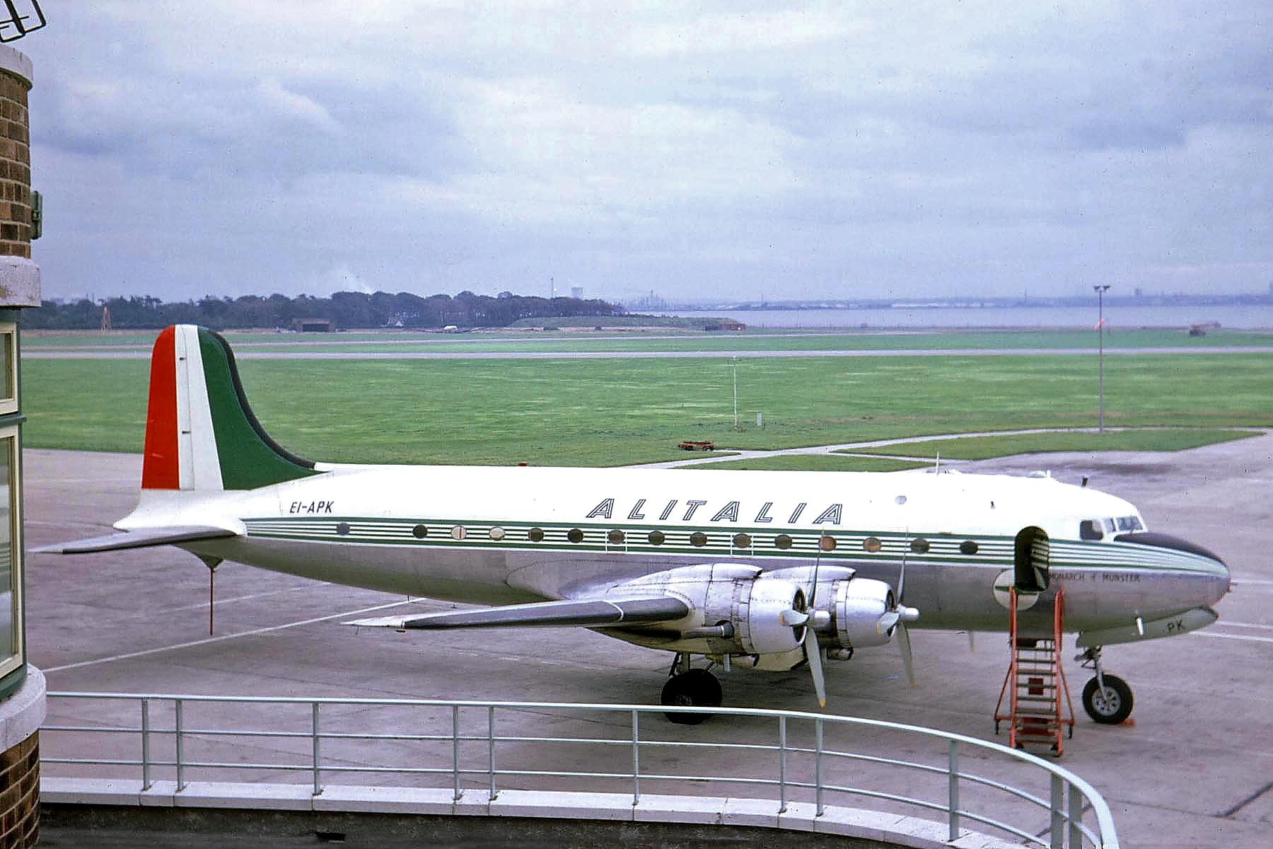 In 1967, Aer Turas won a contract to operate cargo flights for Alitalia. This DC-4 was painted in full Alitalia c/scheme for the contract until their DC-9-33F's arrived